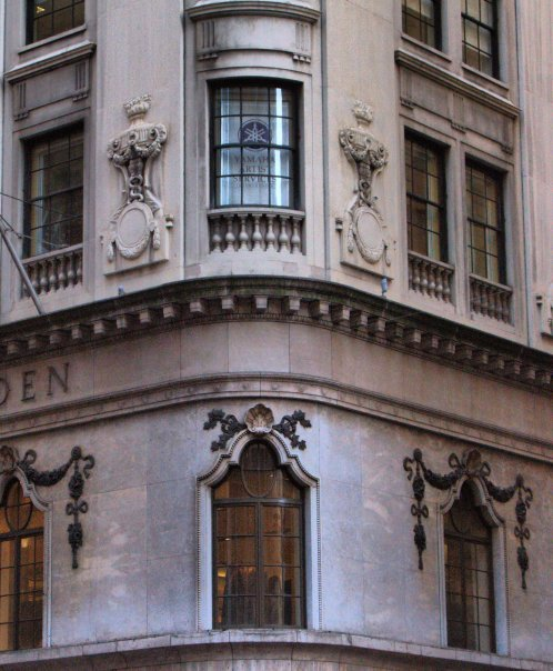 Corner window of the famous Aeolian Building in New York, showing Yamaha corporate banner